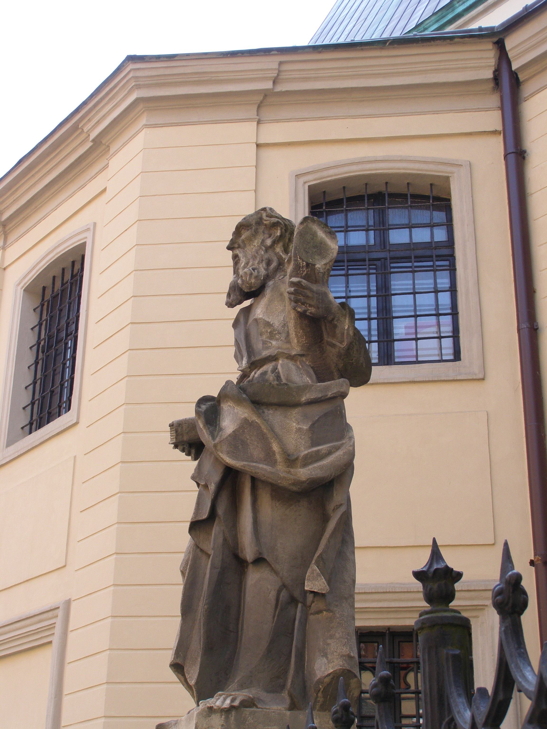 Lviv, sculpture by the catholic cathedral Assumption of the Blessed Virgin Mary